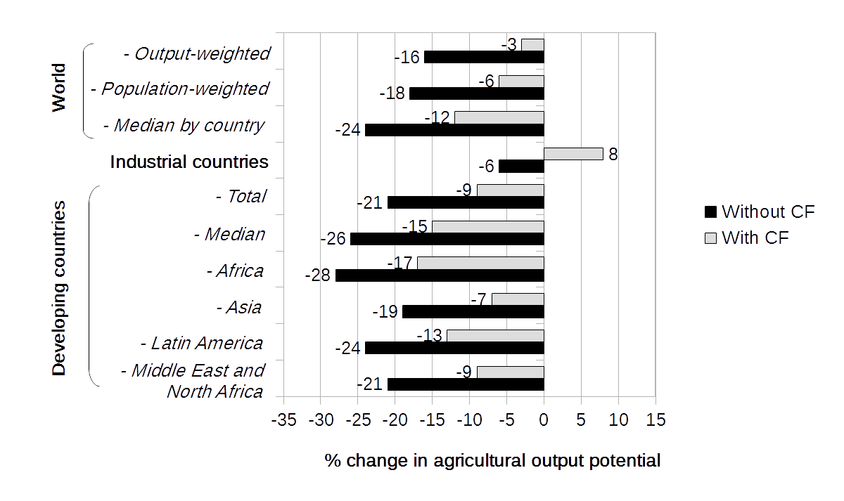 This graph shows the projected effect of climate change on agricultural productivity for different regions. The graph shows changes in productivity (%) with and without the potential benefits of increased carbon fertilization (CF), see Ocean fertilization. The projection is for the time period 2070 to 2099 (the 2080s), and assumes that no efforts are made to reduce human greenhouse gas (GHG) emissions. In the year 2085, the scenario projects atmospheric carbon dioxide (CO2) concentration of 735 parts per million. Global warming of 3 °C (compared to pre-industrial times) is projected in the 2080s, with 5 °C average warming over land areas and 4.4 °C by farm area. The projection suggests that climate change will reduce global agricultural productivity. The largest reductions are projected in developing countries. A table of the graph data is included in a later section. References Cline, W.R. (2008-03), “Global Warming and Agriculture”, in Finance and Development[1], volume 45, issue 1, International Monetary Fund. Archived 17 August 2014. More detailed data are available from: Projected impact of climate change on agricultural yields[2], European Environment Agency (EEA), (Please provide a date or year). Archived 12 September 2014.. Data webpage (archived 12 September 2014).